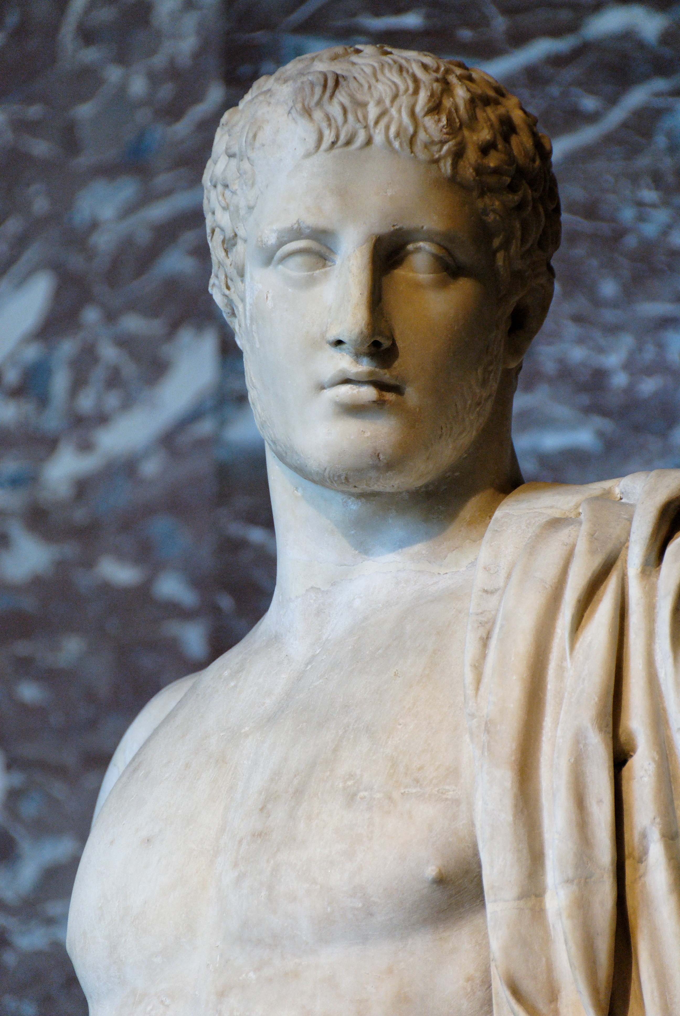 Diomedes stealing the Palladion (now lost). Marble, Roman copy from the 2nd-3rd century CE after a Greek original of the 5th century.